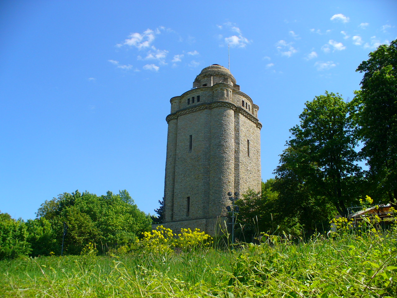 Bismarckturm Ingelheim